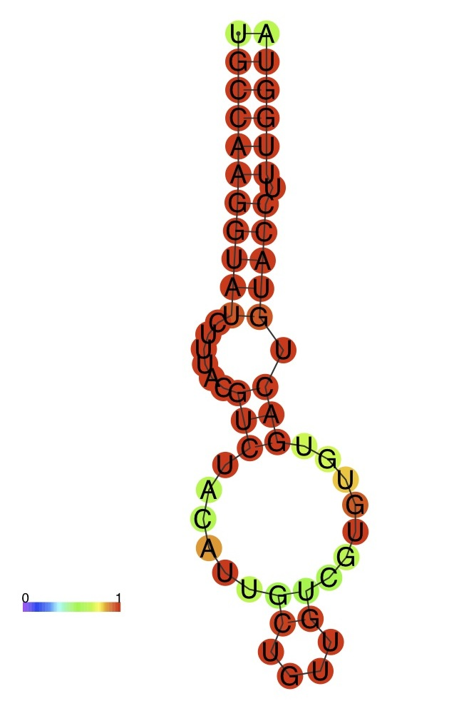 Secondary structure model of Avian HBV epsilon. Sequence coloured by base paired probabilities using RNAalifold with constraints. This will reflect the updated model for AHBV_epsilon in Rfam 11.